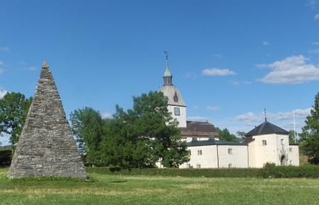 Austråttborgen (en: The Manor of Austrått), built 1656, in Ørland, Norway